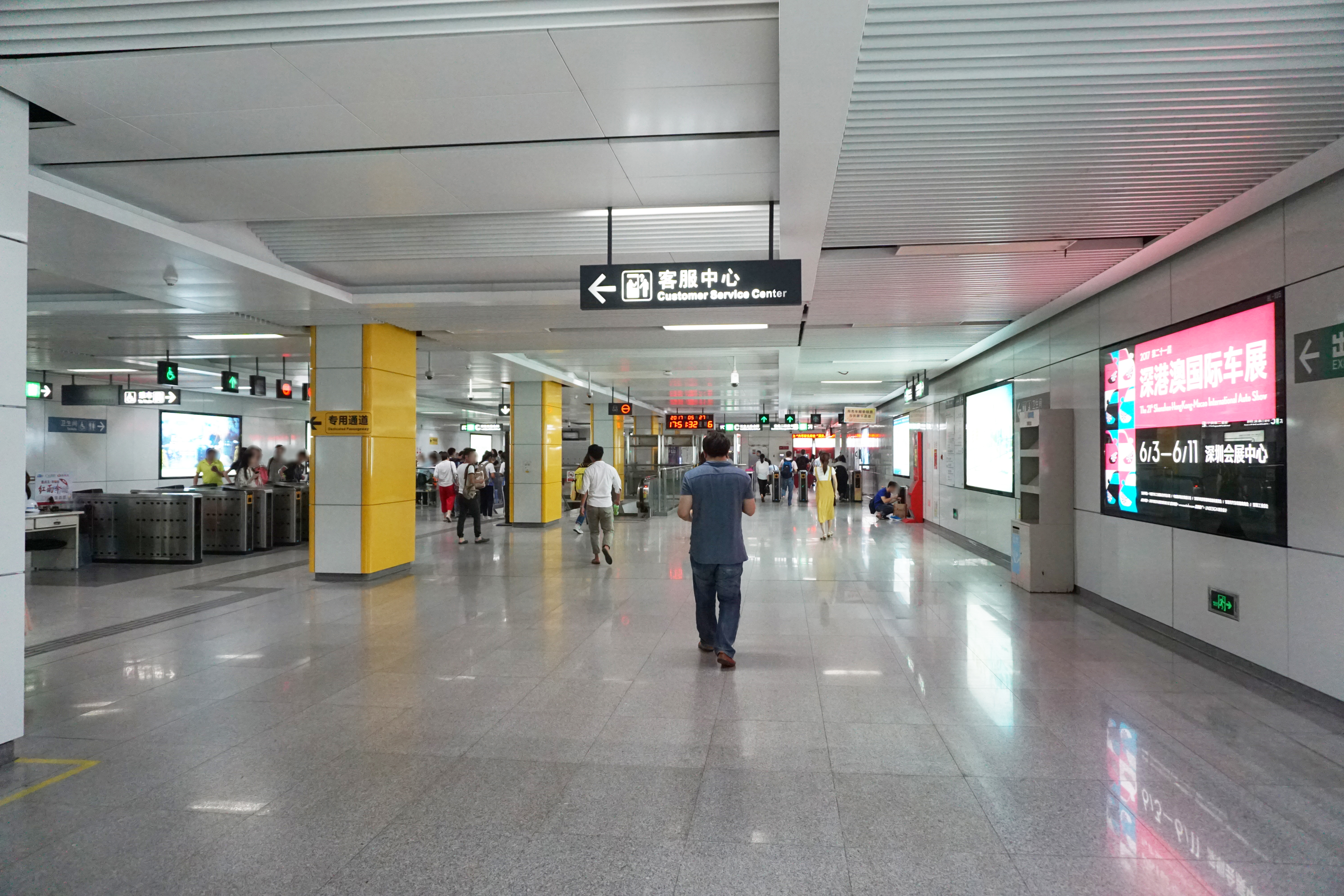 Honglang North Station in Bao'an District, Shenzhen.